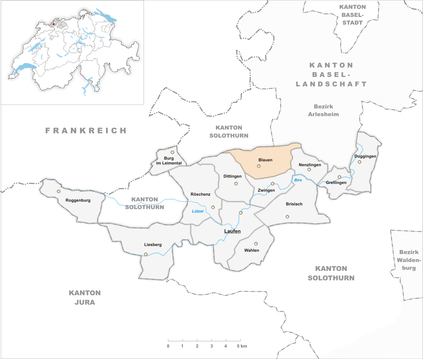 Municipality Blauen